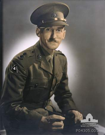 Lieutenant George Hamilton Lamb (1900–1943), soldier in the Second Australian Imperial Force and Member of the Victorian Parliament. Died as a prisoner of war on the Burma Railway.